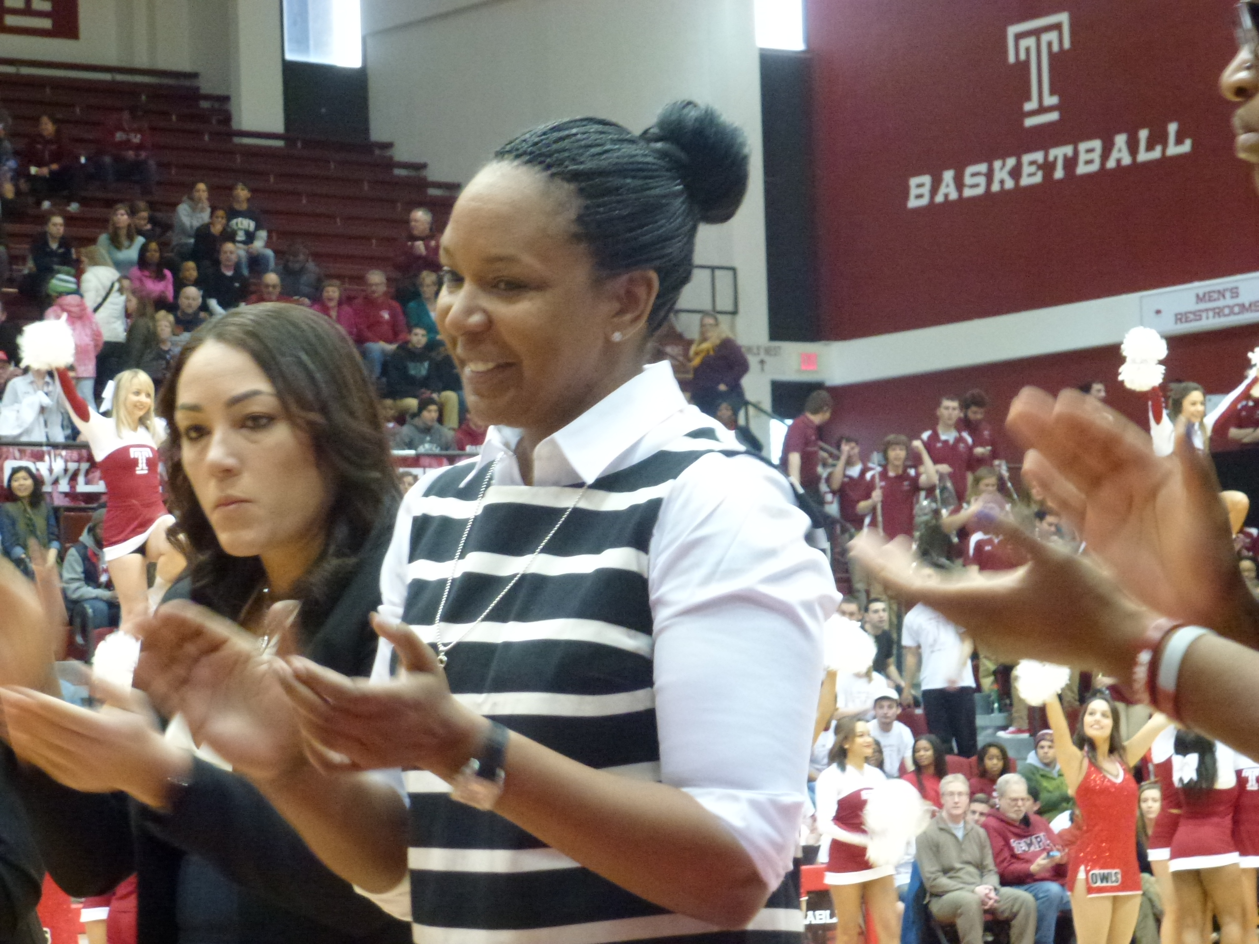 Tonya Cardoza during player introductions of the Temple-UConn game in McGongle Hall, Temple 1 Feb 2015